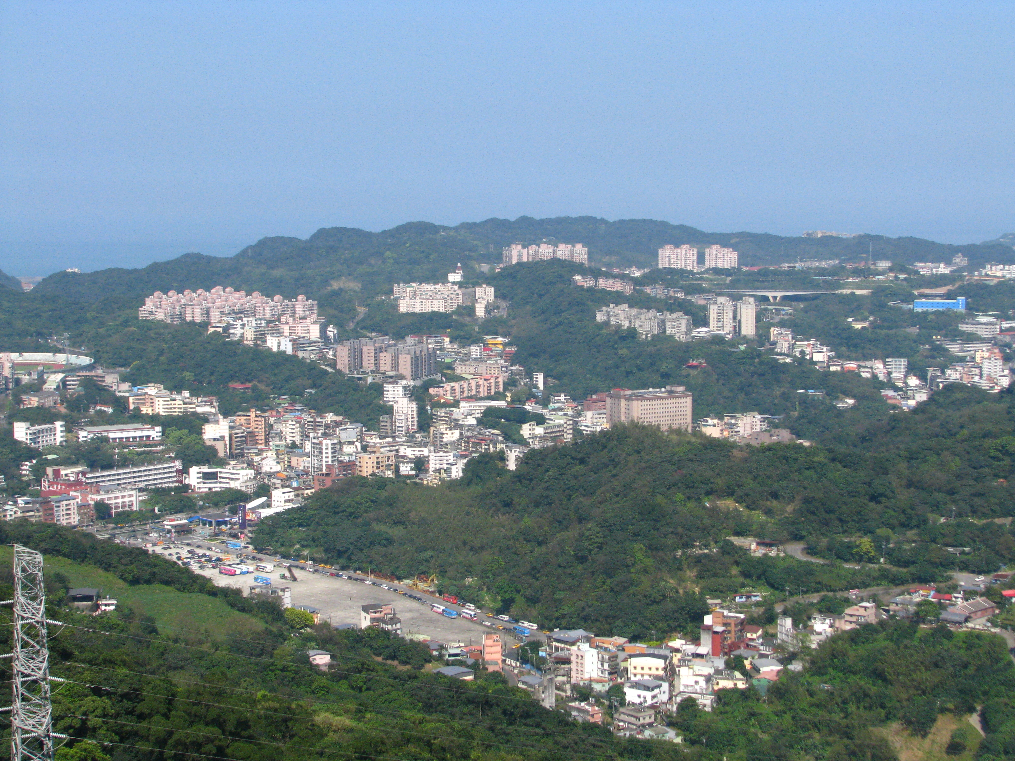 This is a hill in Keelung, Taiwan.